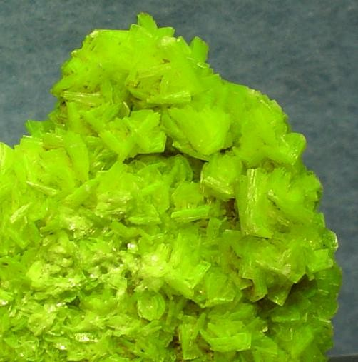 Meta-autunite Locality: Assunção Mine, Aldeia Nova, Ferreira de Aves, Sátão, Viseu District, Portugal (Locality at ) Size: 4.1 x 2.9 x 1.7 cm. Vivid greenish-yellow tabular crystals and books of meta-autunite BLANKET the bit of matrix on this other-worldly specimen from the famous Assuncao Mine of Portugal. An excellent and highly representative specimen of the species and locality. FABULOUS yellow-green fluorescence.